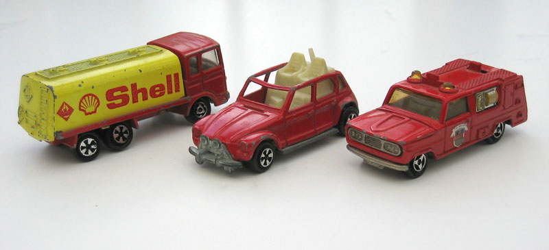 Three Majorette toy cars at scales 1:60, 1:80, 1:100 - 1975 Personal picture